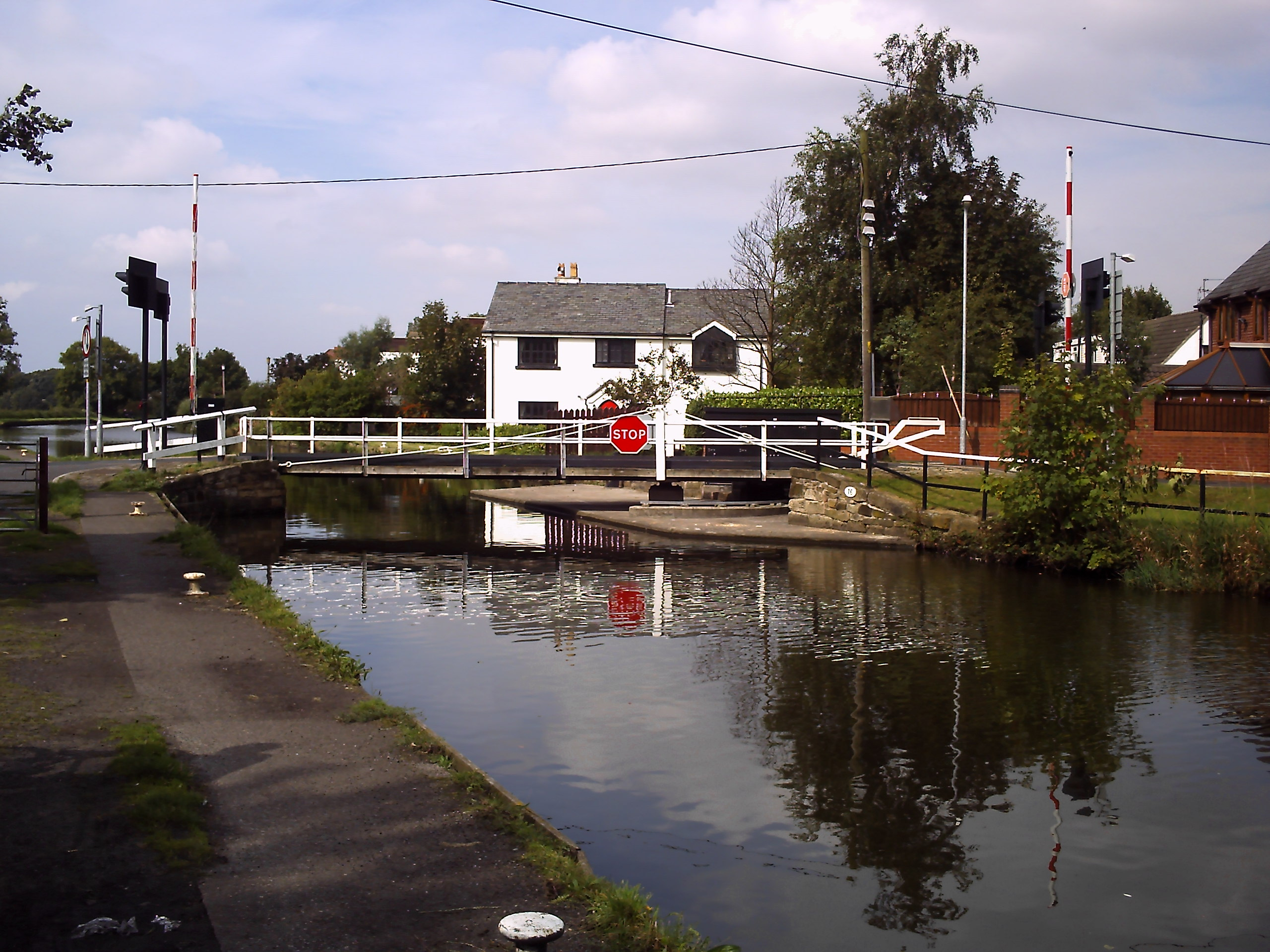 Bells Lane Bridge